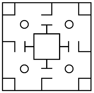 Drawing of the playing surface of a typical Liubo game board